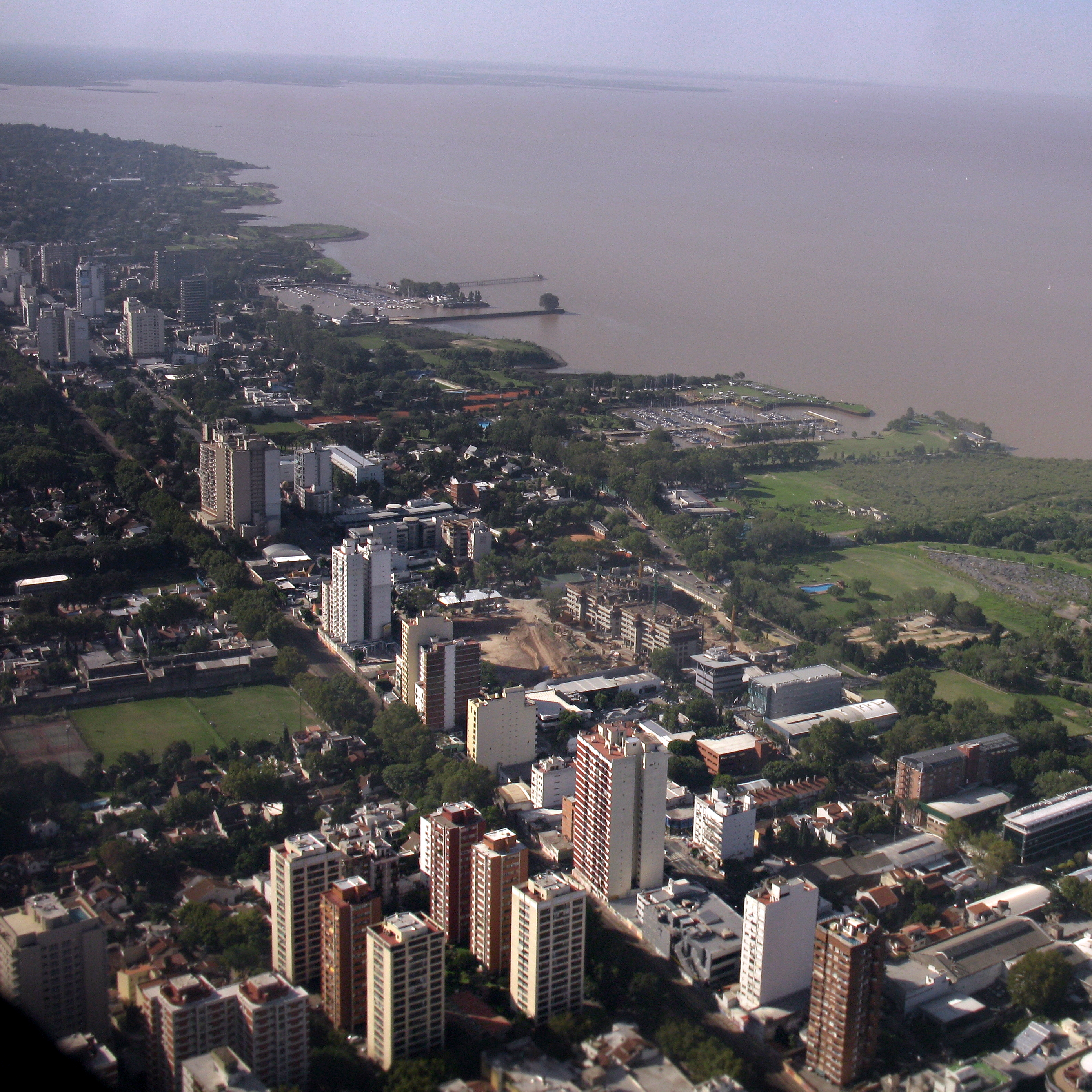 Aerial view of Vicente López, a suburb of Buenos Aires, and the Río de la Plata.